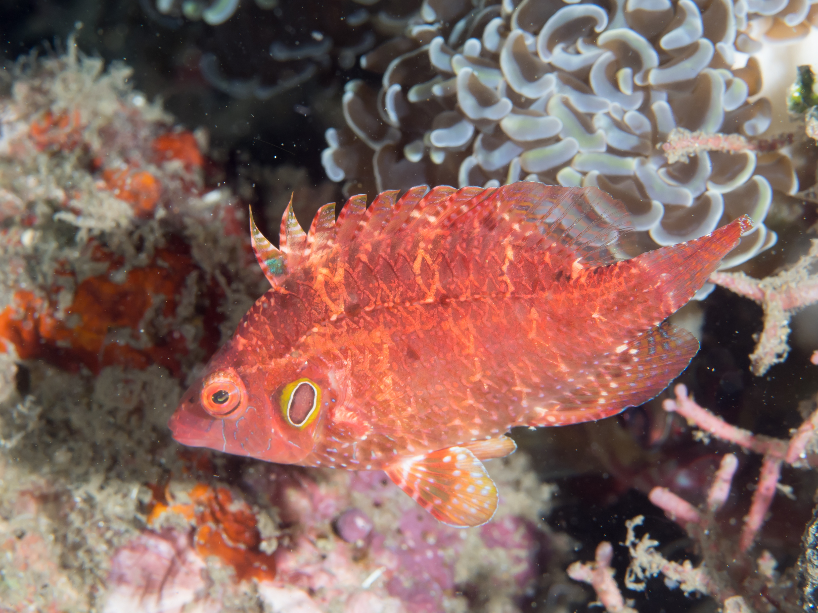 Lembeh, Indonesia - Cryptic wrasse (Pteragogus cryptus)